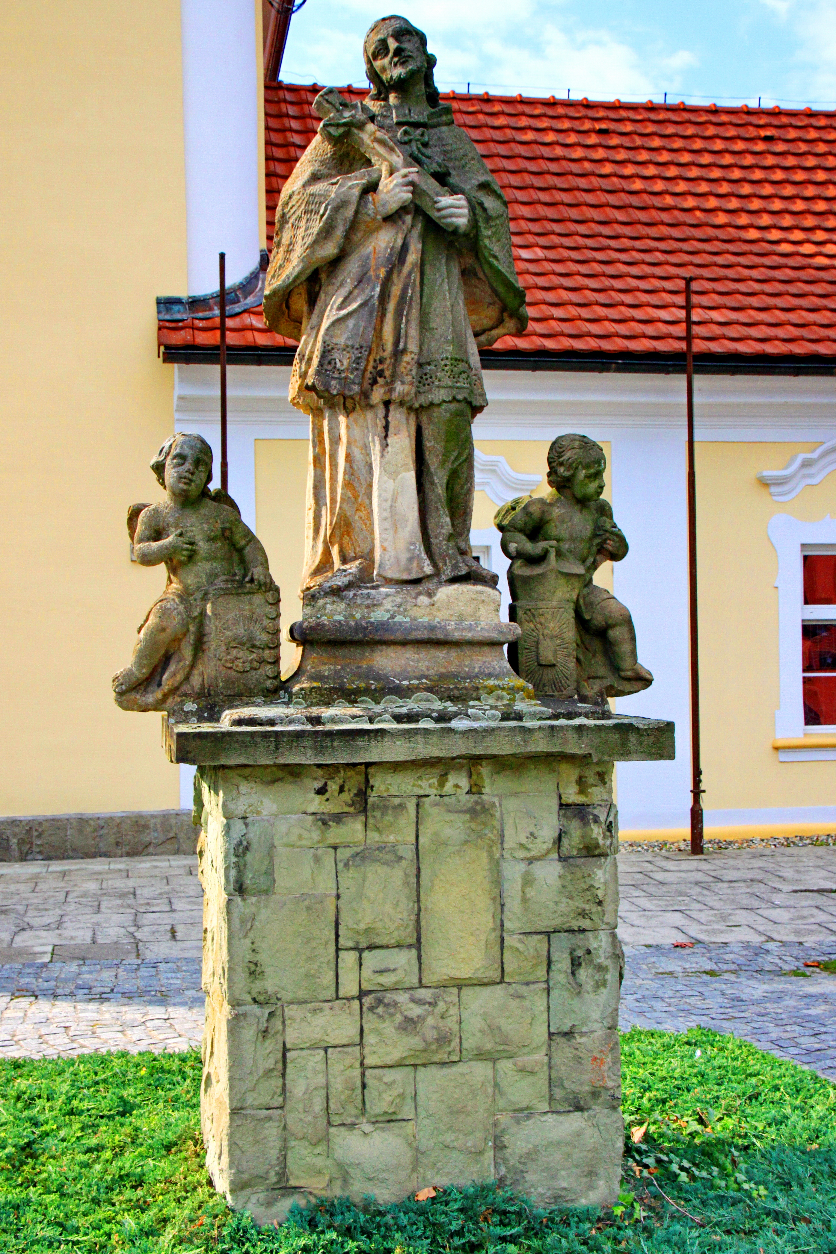 Ustroń, St. Klemens parish church, build in 1787, 1835-1848. Statue of St. John of Nepomuk